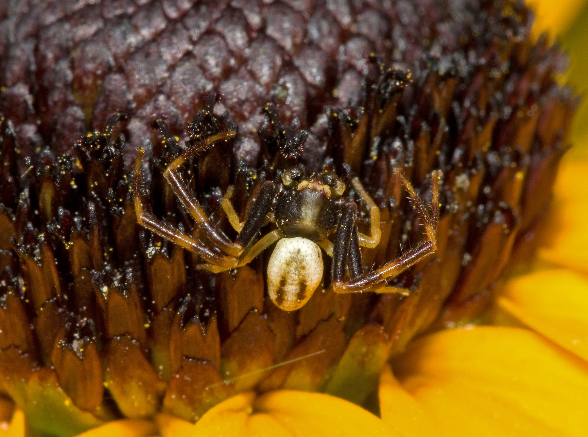 Please report references to kulacgmx.at.